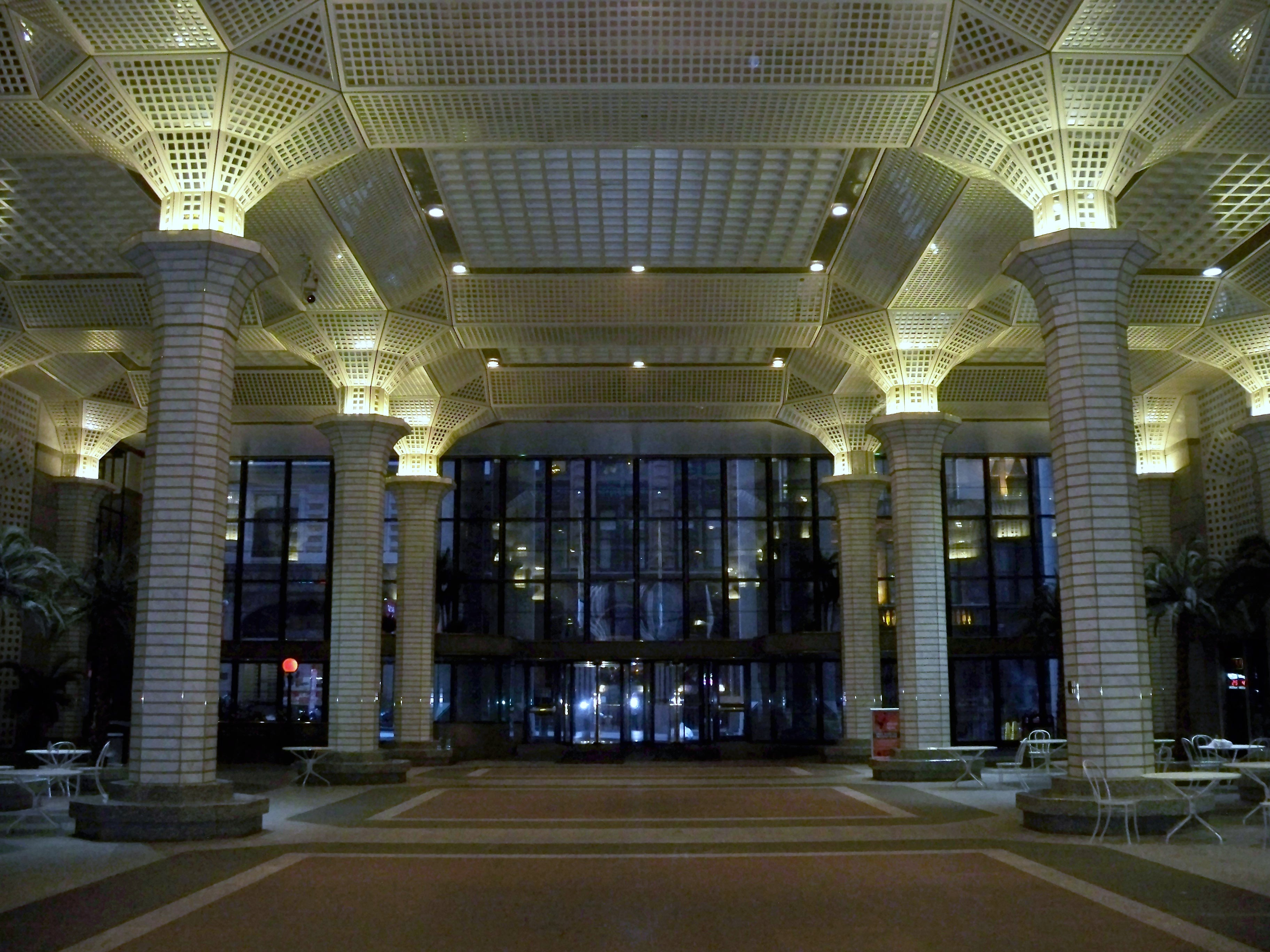 Lobby of 60 Wall Street.